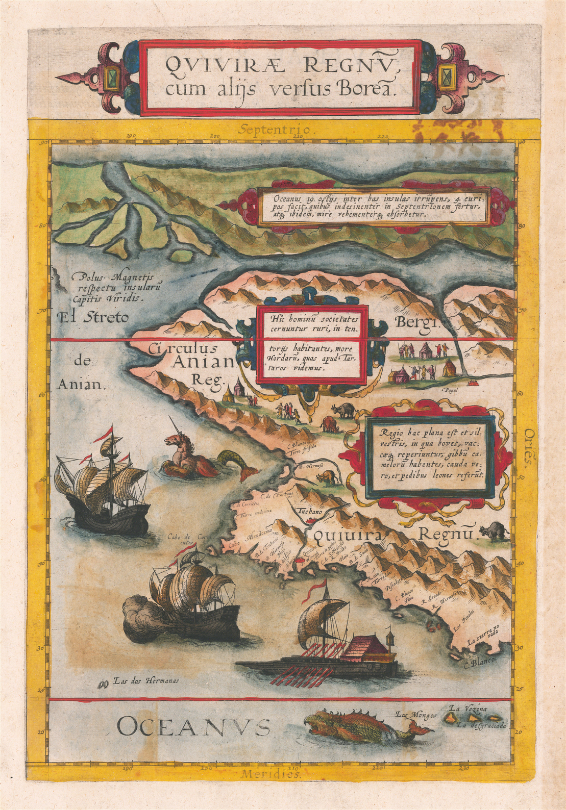 Cornelis de Jode, Quiviræ Regnum cum aliis versus Boream, one of the earliest maps depicting the west coast of North America, from Speculum Orbis Terræ (1593). Provenance: The Benevento Collection (Sotheby’s London, 6 May 2010, lot 37.)